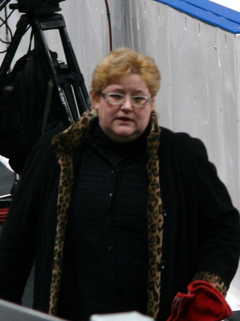 Nina Mozer at the 2010 Cup of Russia